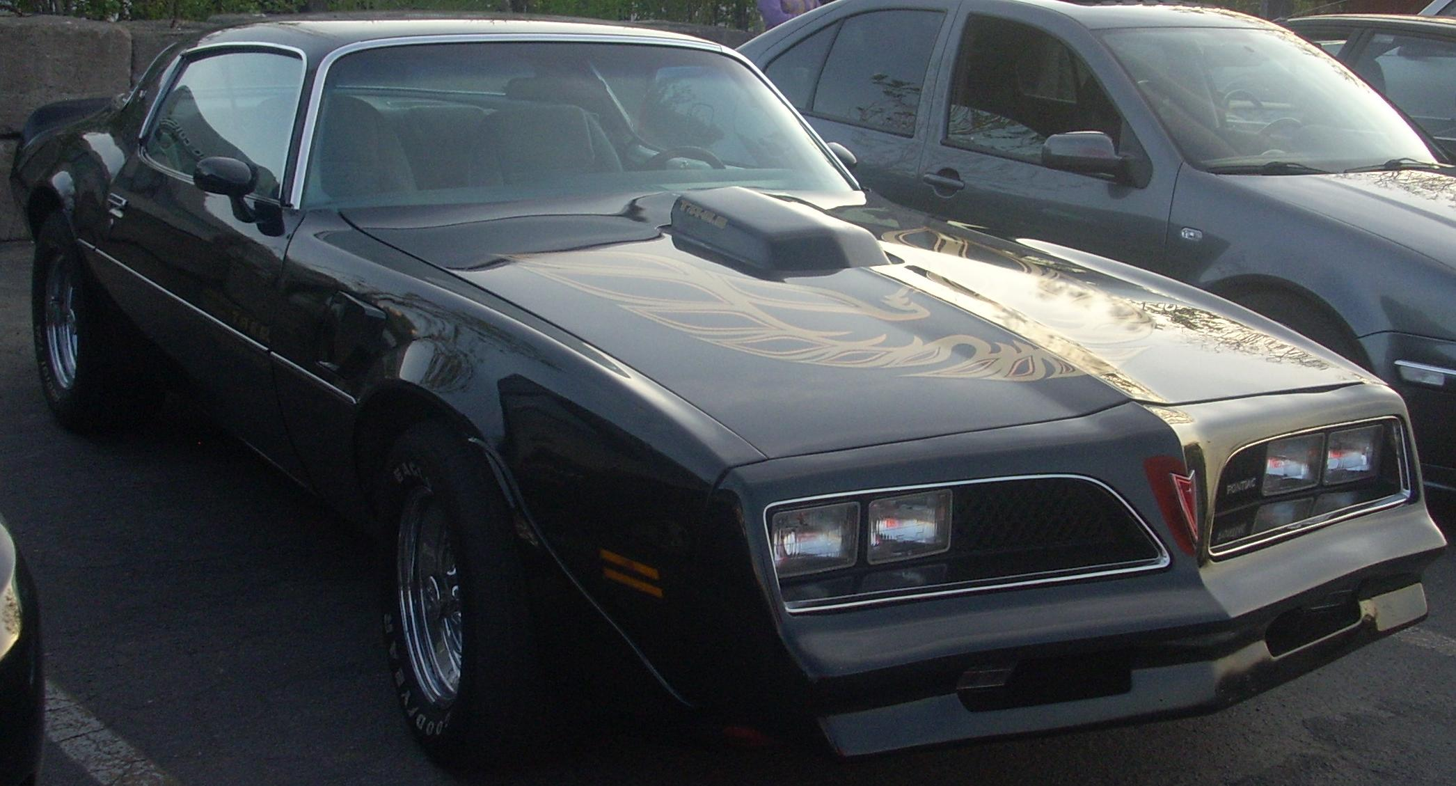 Pontiac Trans Am photographed in Montreal, Quebec, Canada at Gibeau Orange Julep.